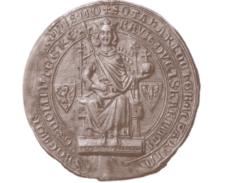 Ottokar II Premysl